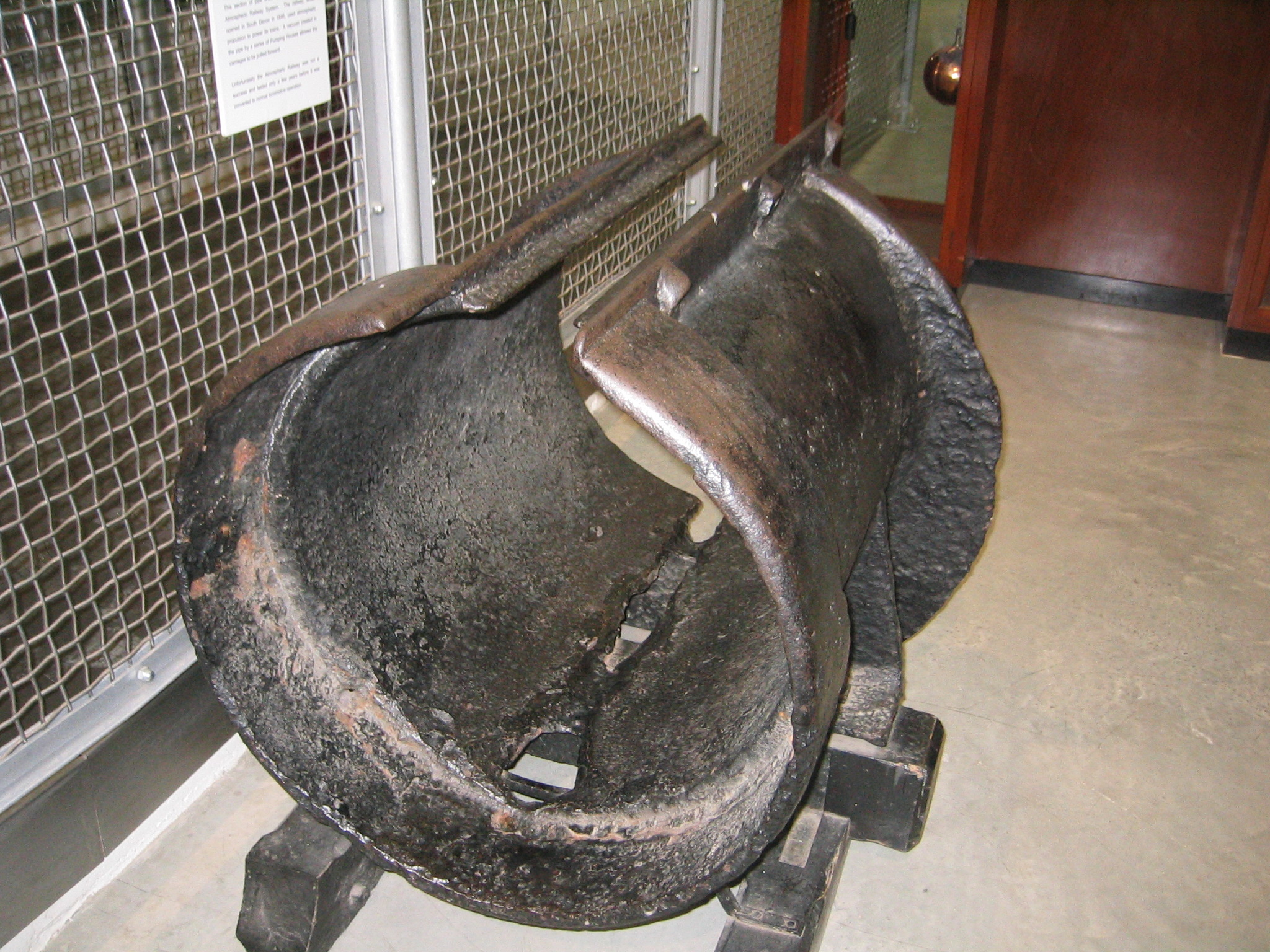 Deben Dave (talk) 09:53, 18 April 2008 (UTC)